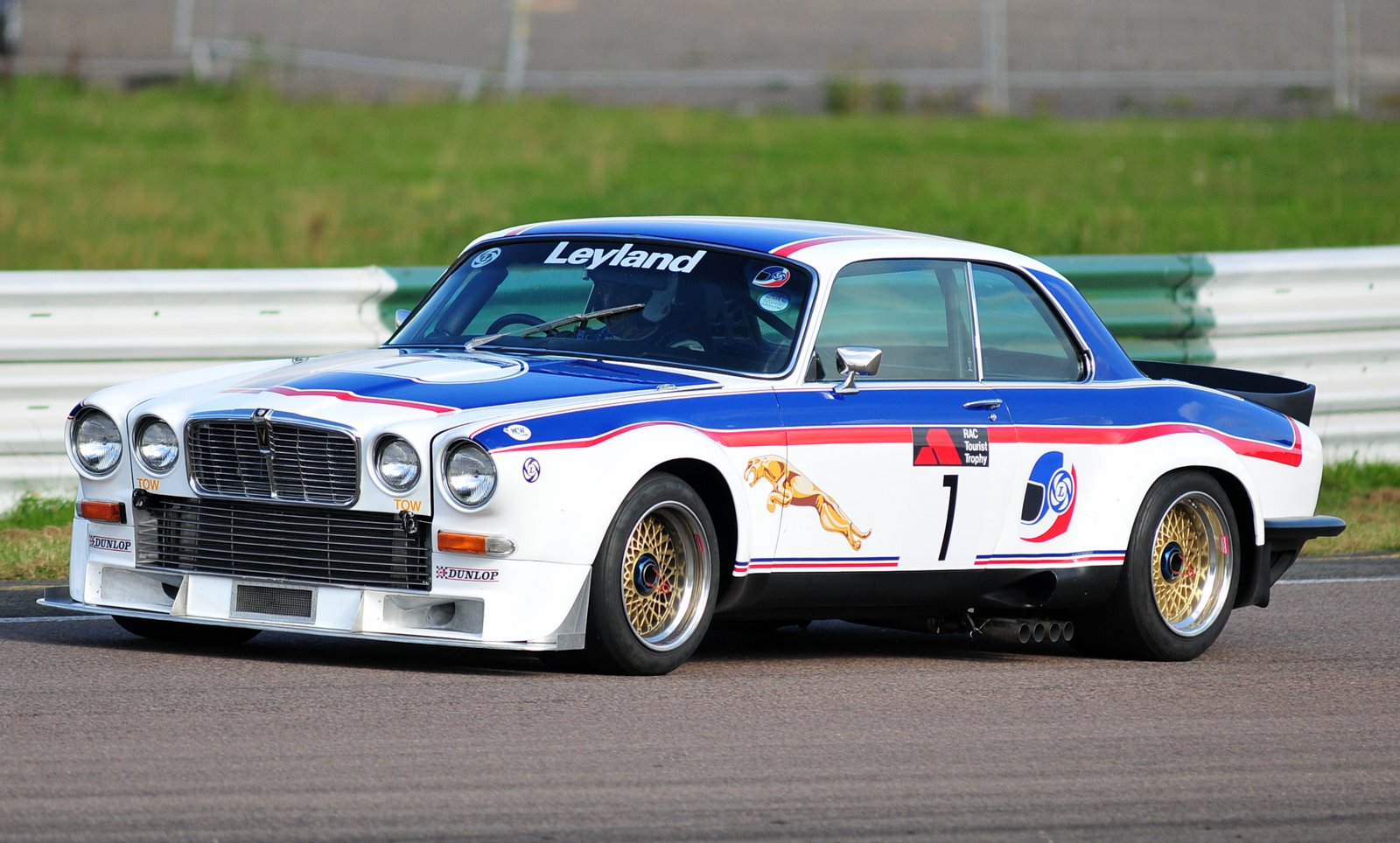 The first of the Broadspeed Jaguar XJ12C racing cars, being shaken down at Mallory Park, September 2009.